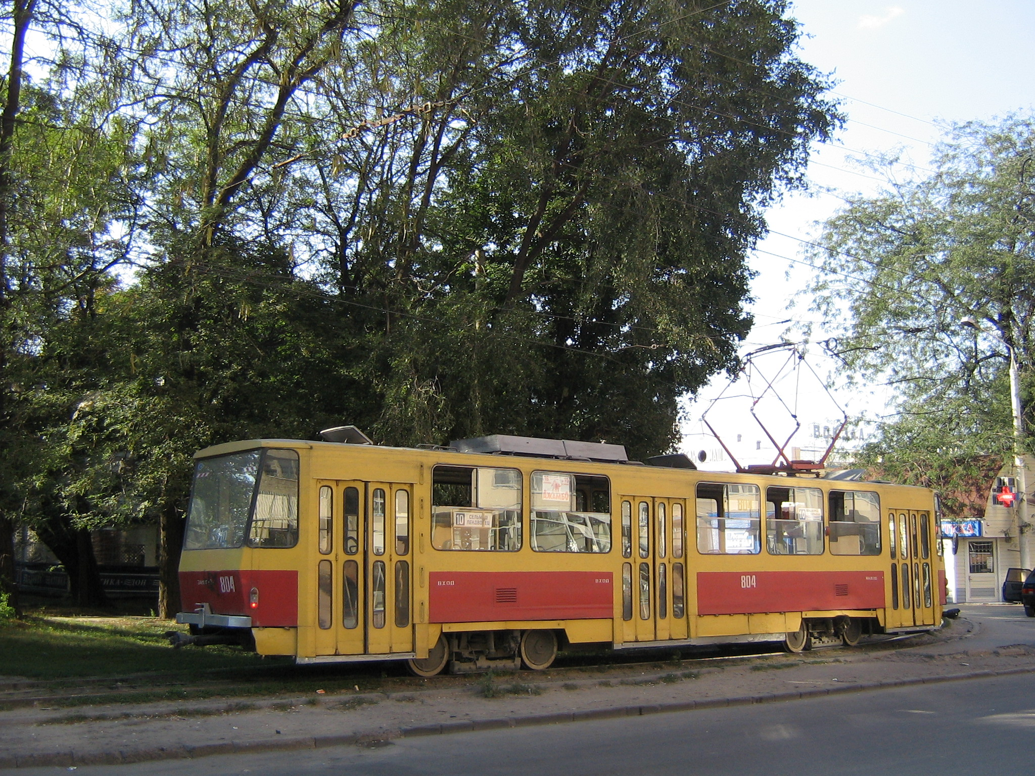 Tram (Rostov-on-Don)